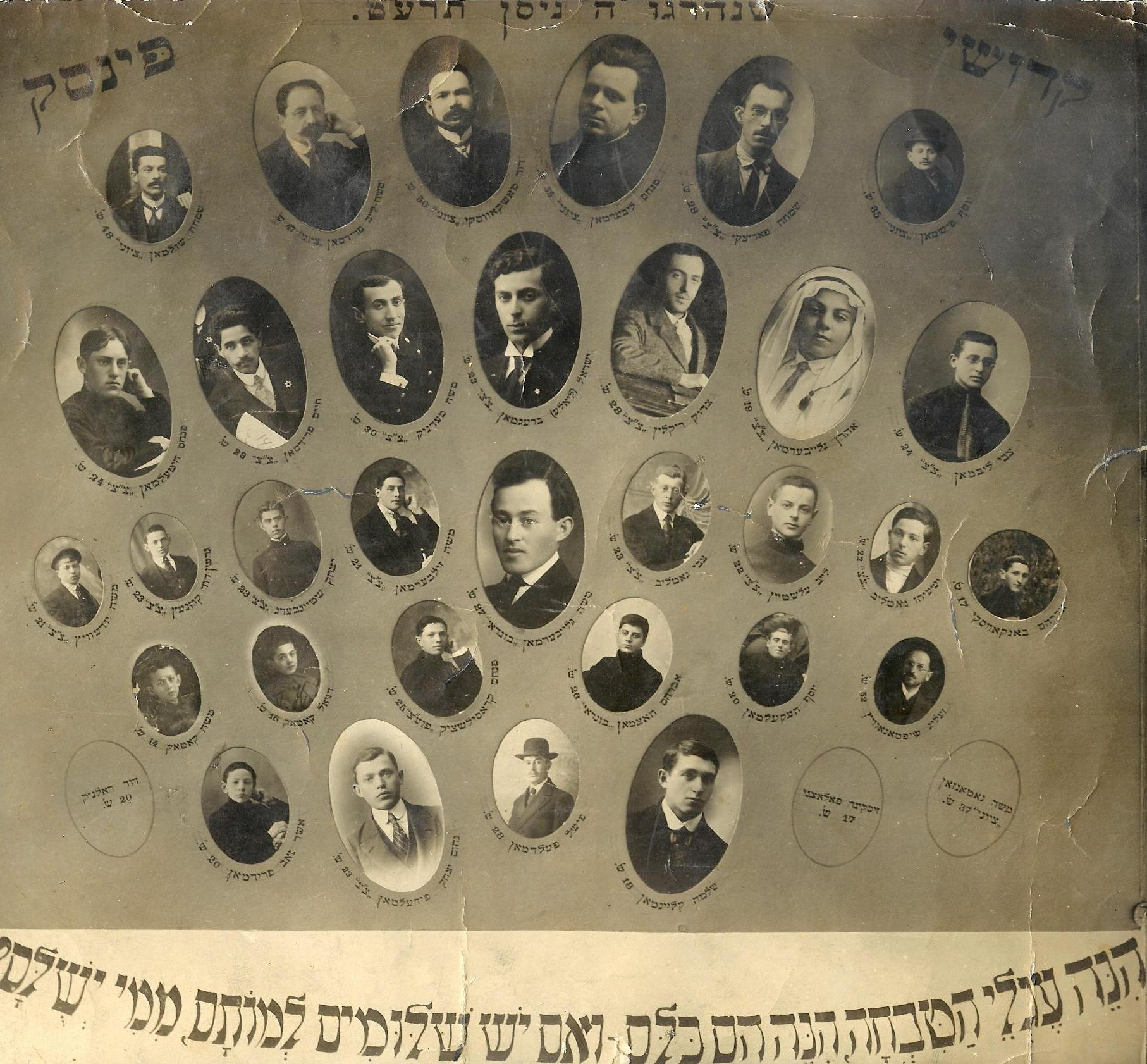 Photos of the 35 Jews killed during the Pinsk's massacre by the Polish army in 1919.